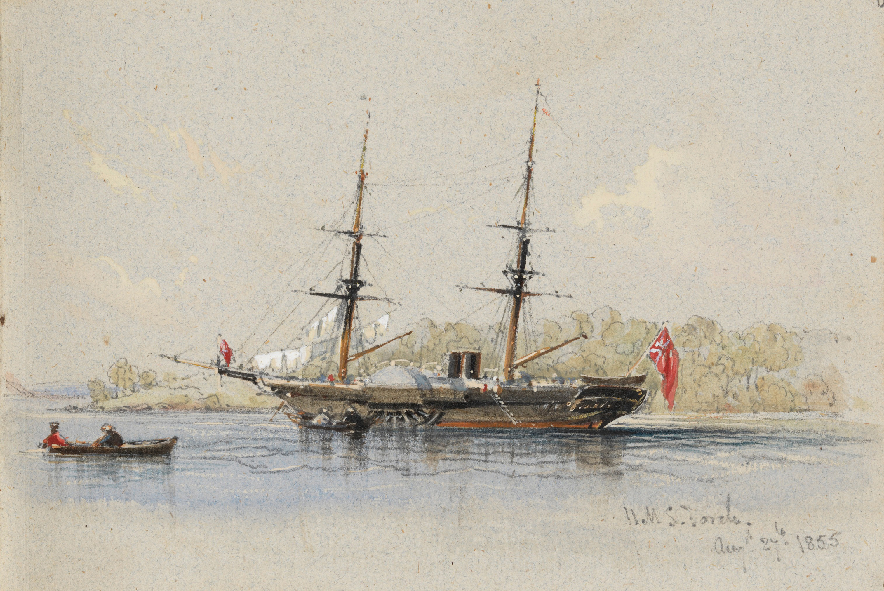 HMS Torch at anchor, [attrib. Sydney], Australia, 27 August 1855, watercolour sketch by Conrad Martens, from Sketchbook of scenes in and around Sydney, ca. 1855-1856, State Library of New South WalesDL PX 16